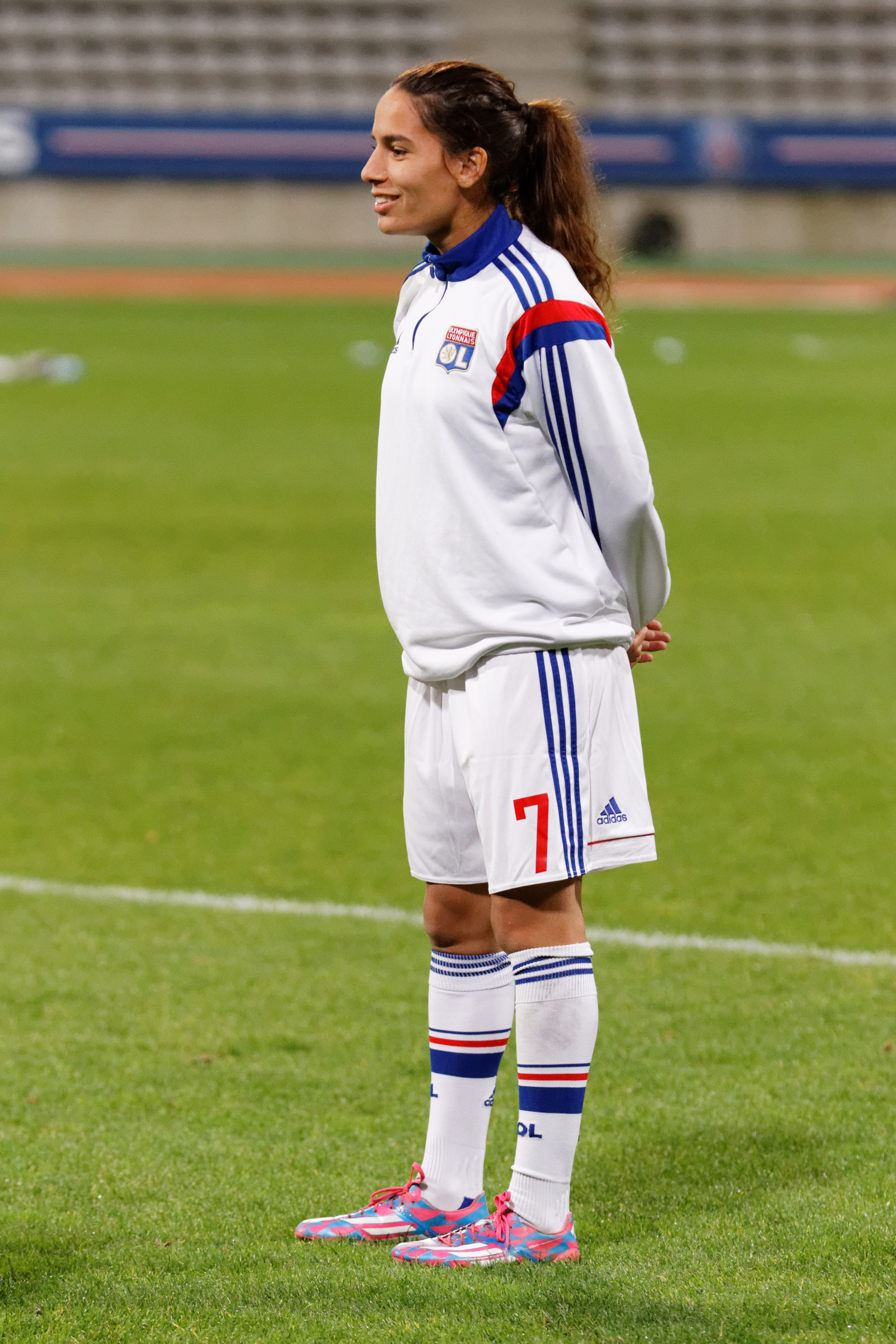 UEFA Women's Champions League, PSG - Lyon, 8 November 2014.